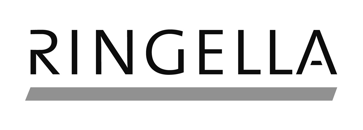 Ringella Logo